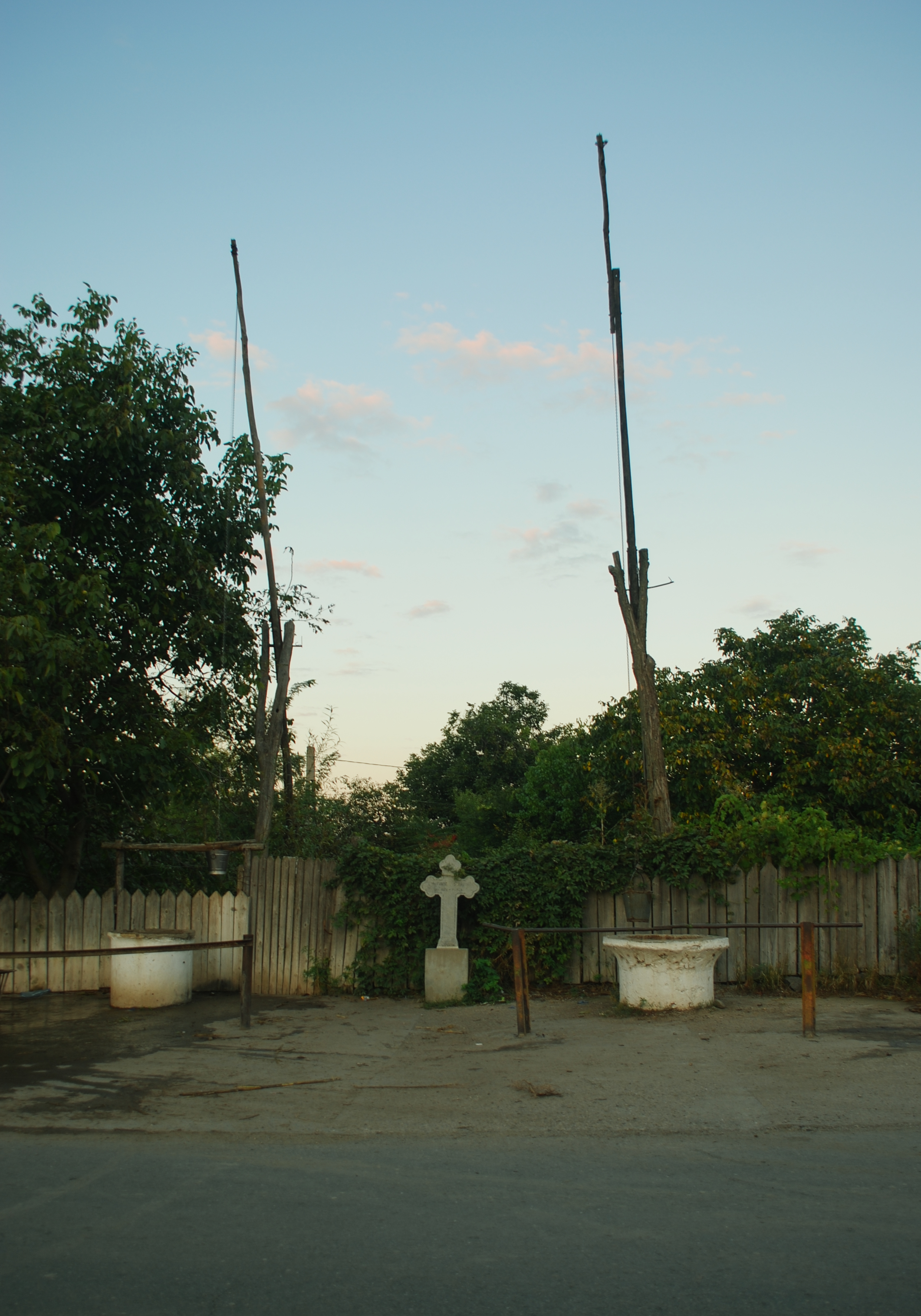 Wells in Tătaru, Dudești commune, Brăila County, Romania